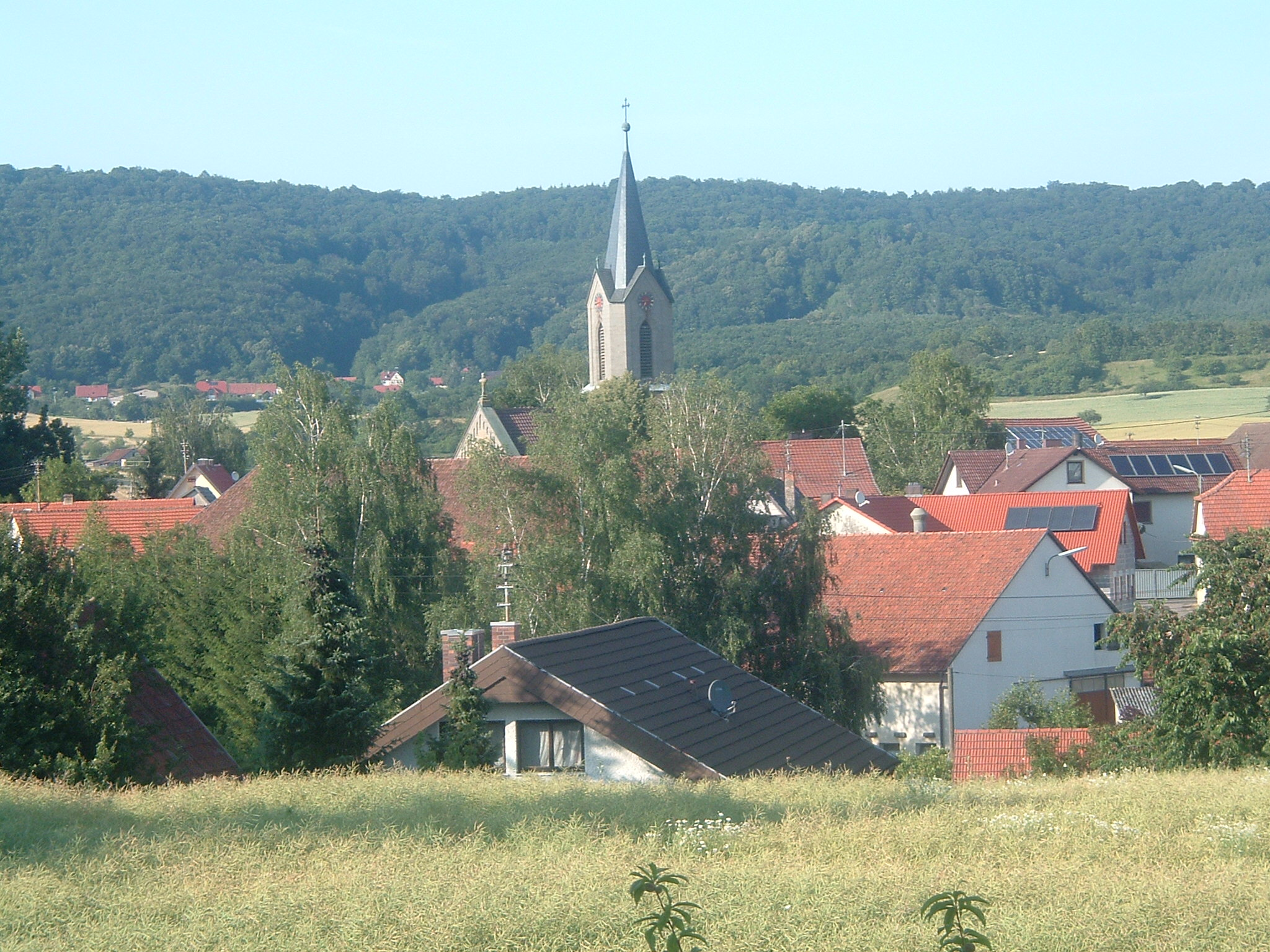 Friesenhausen